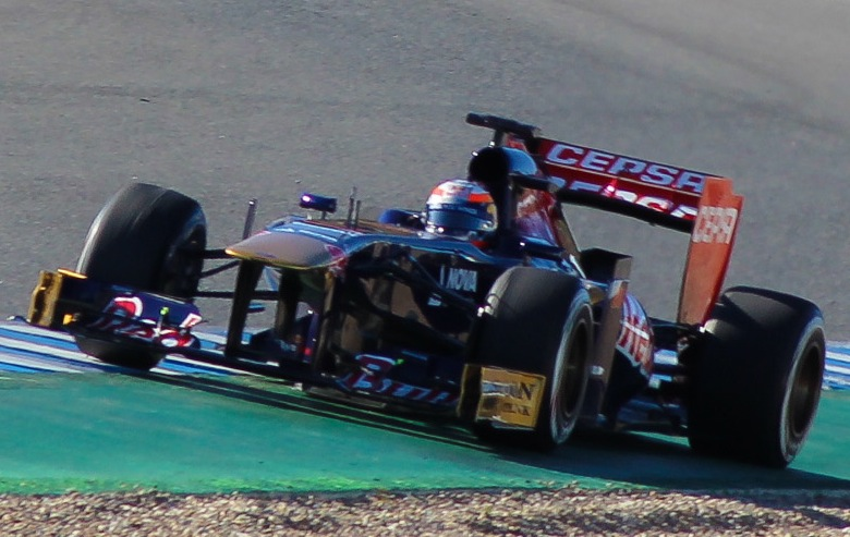 Ricciardo testing the STR8 at Jerez